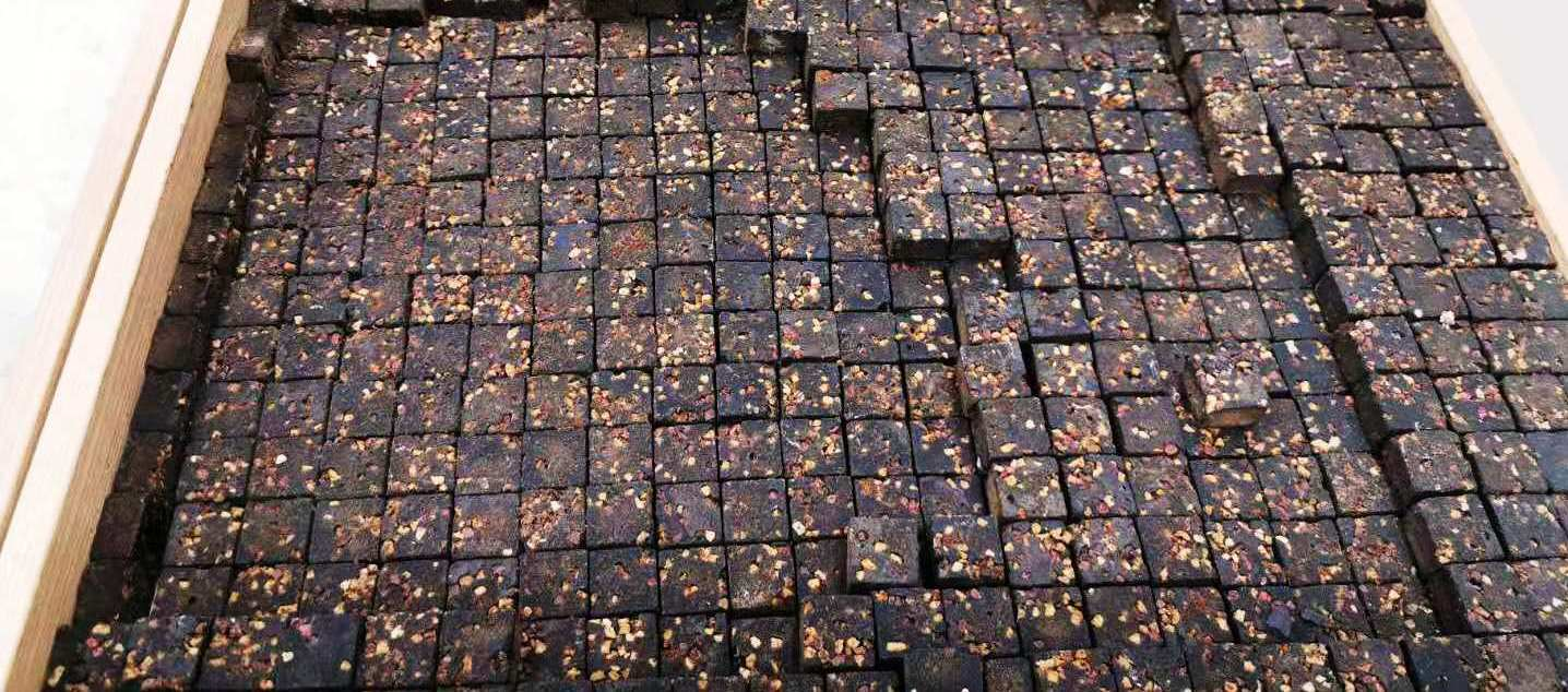 Yunnan traditional handmade black sugar, which can be added spices such as roses, sweet osmanthus, ginger and so on. Photo taken in a supermarket of Luxi County, Yunnan, China.